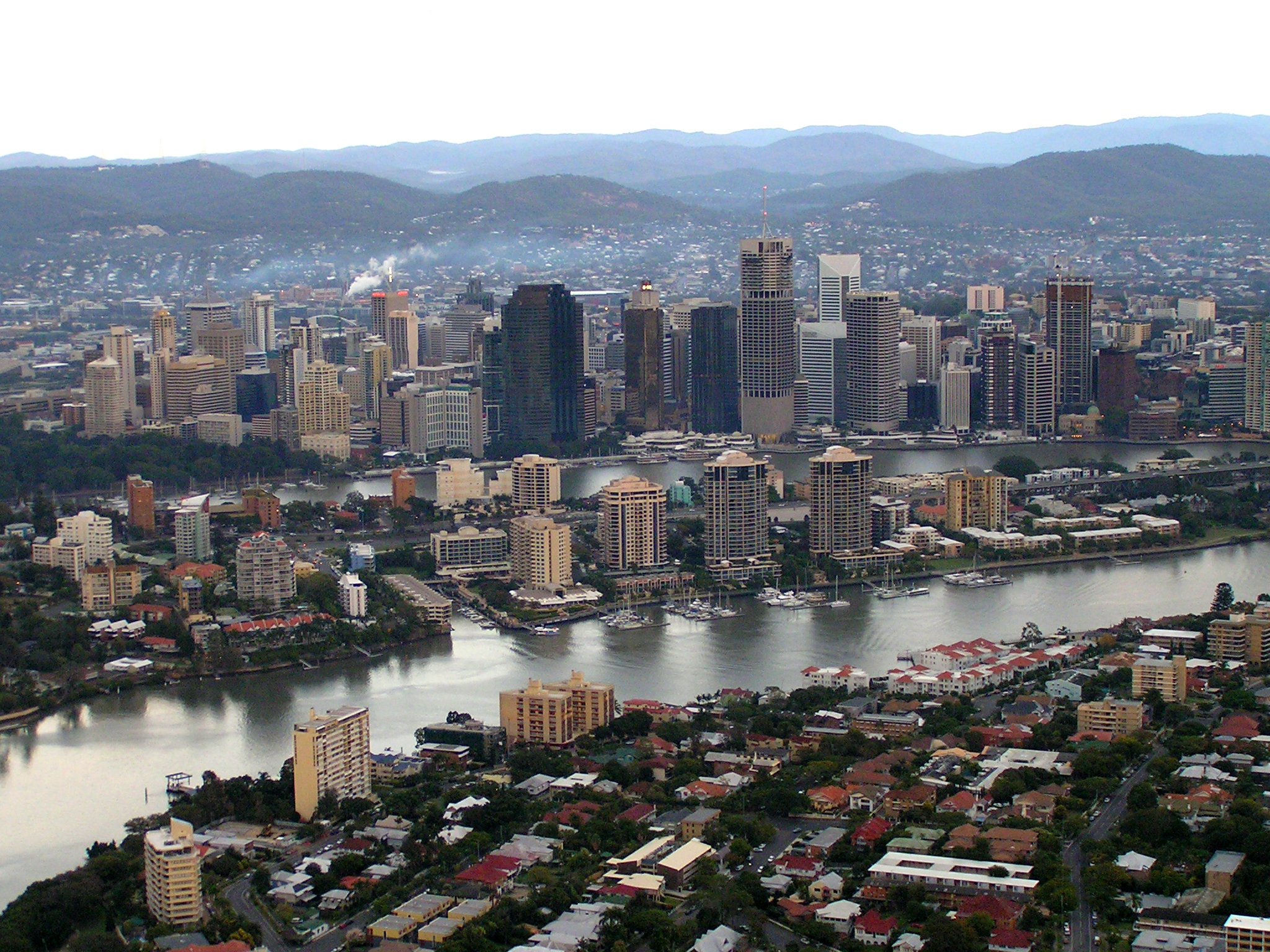 Brisbane. Photo taken from a hot air balloon.